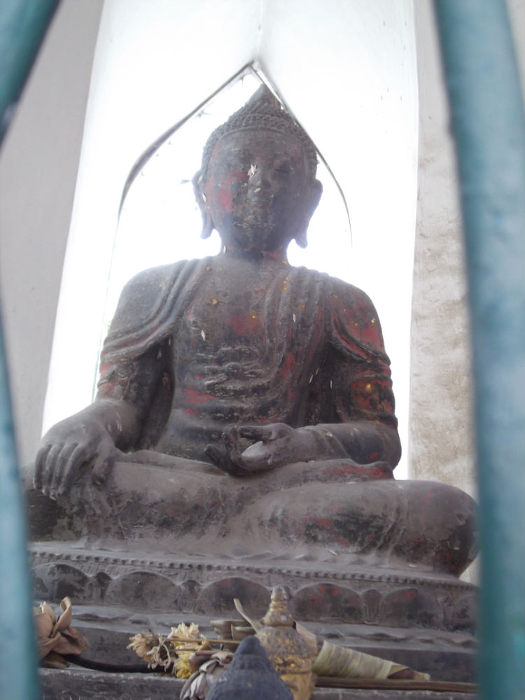 วัดอัปสรสวรรค์